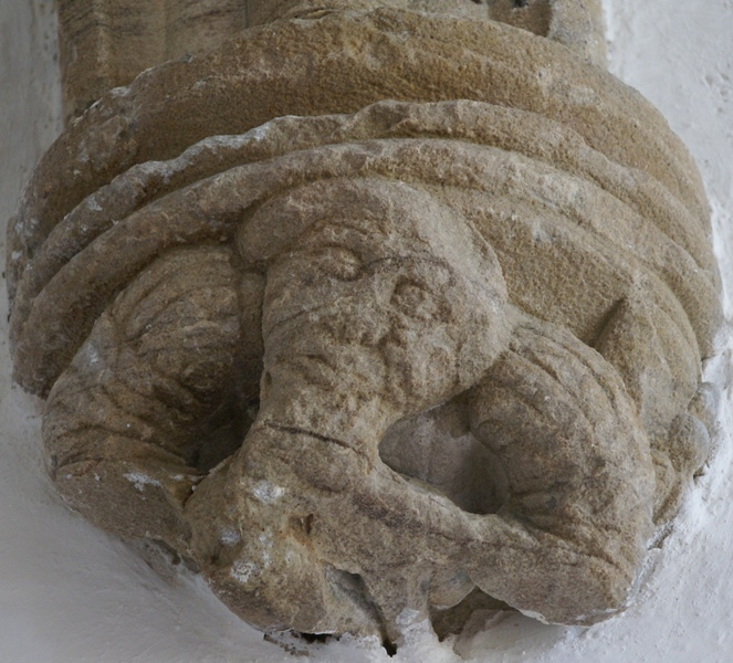 Glenluce Abbey, Dumfries and Galloway, Scotland - detail in chapter house